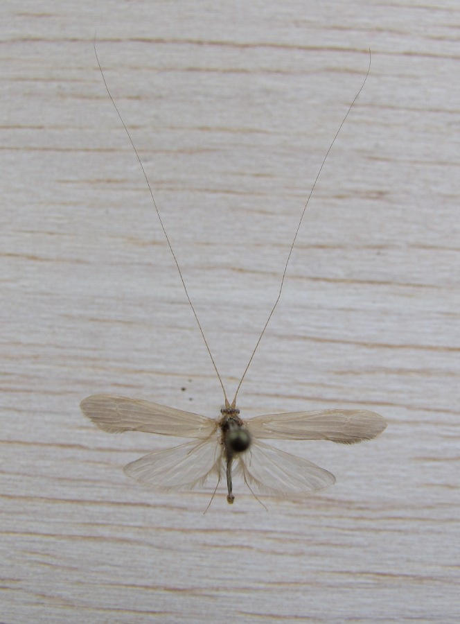 Mounted Oecetis ochraea (TRICHOPTERA: Leptoceridae). Collected 18 July 2010 in Turku, Finland.